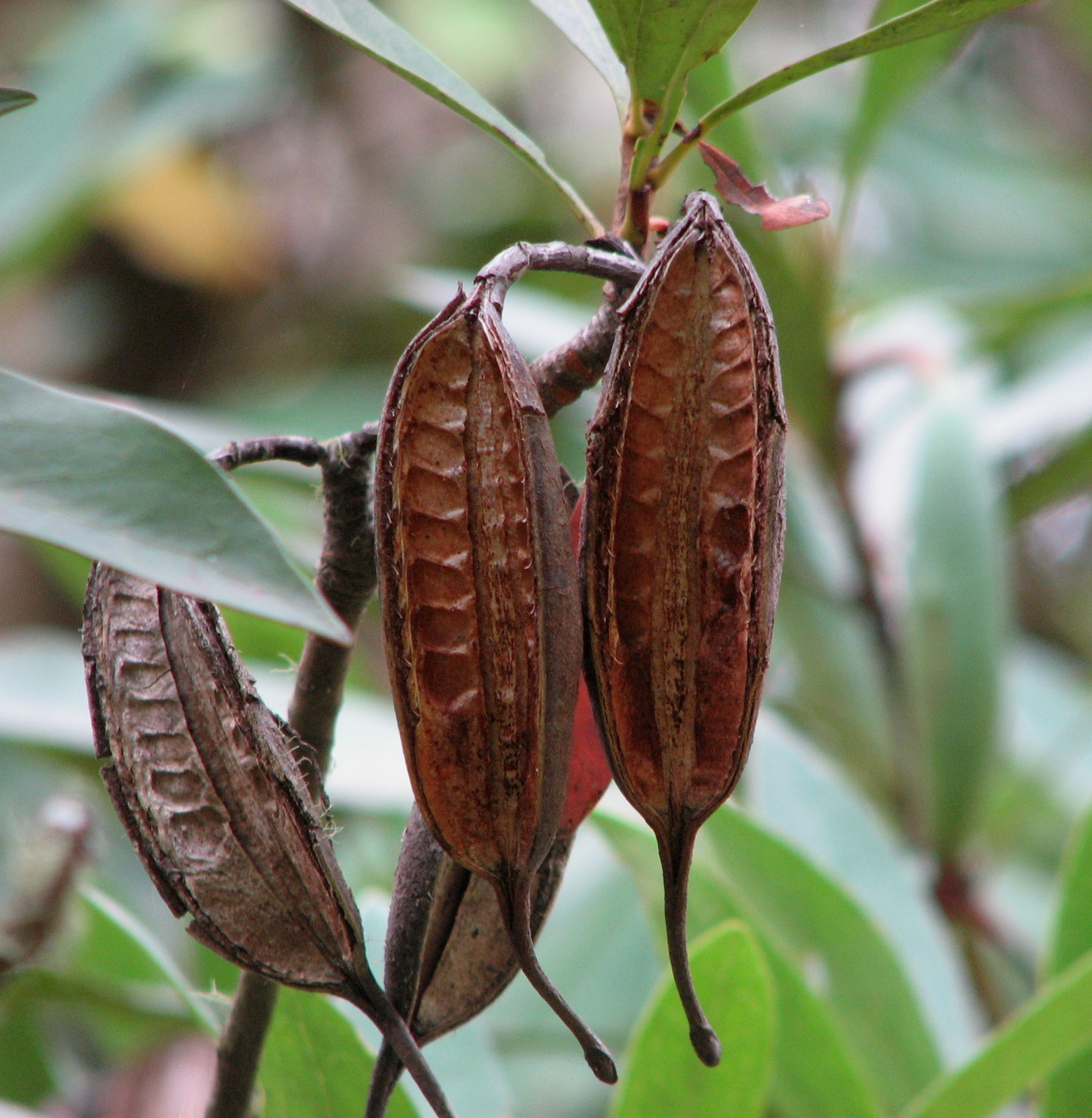 Telopea oreades fruit, Errinundra National Park, Victoria, Australia